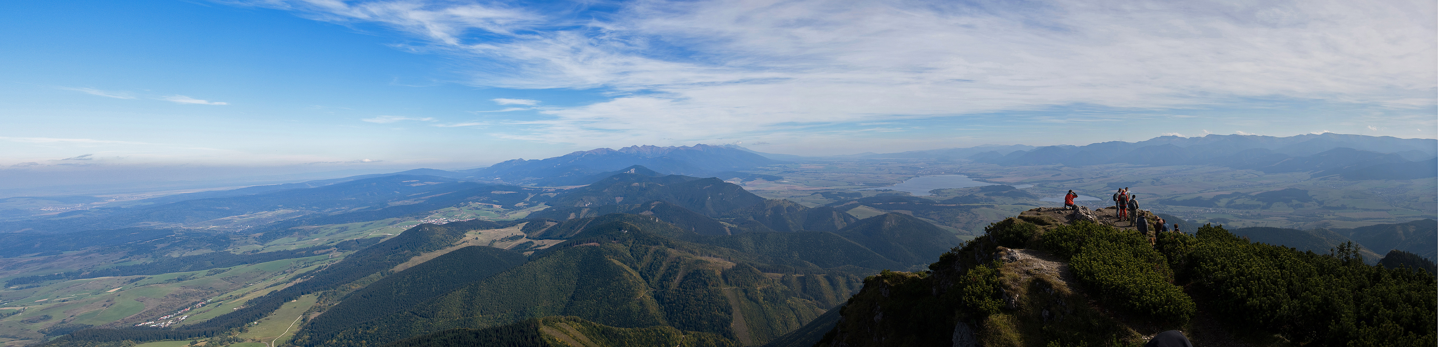 Wide view from Velky Choc Slovakia - east